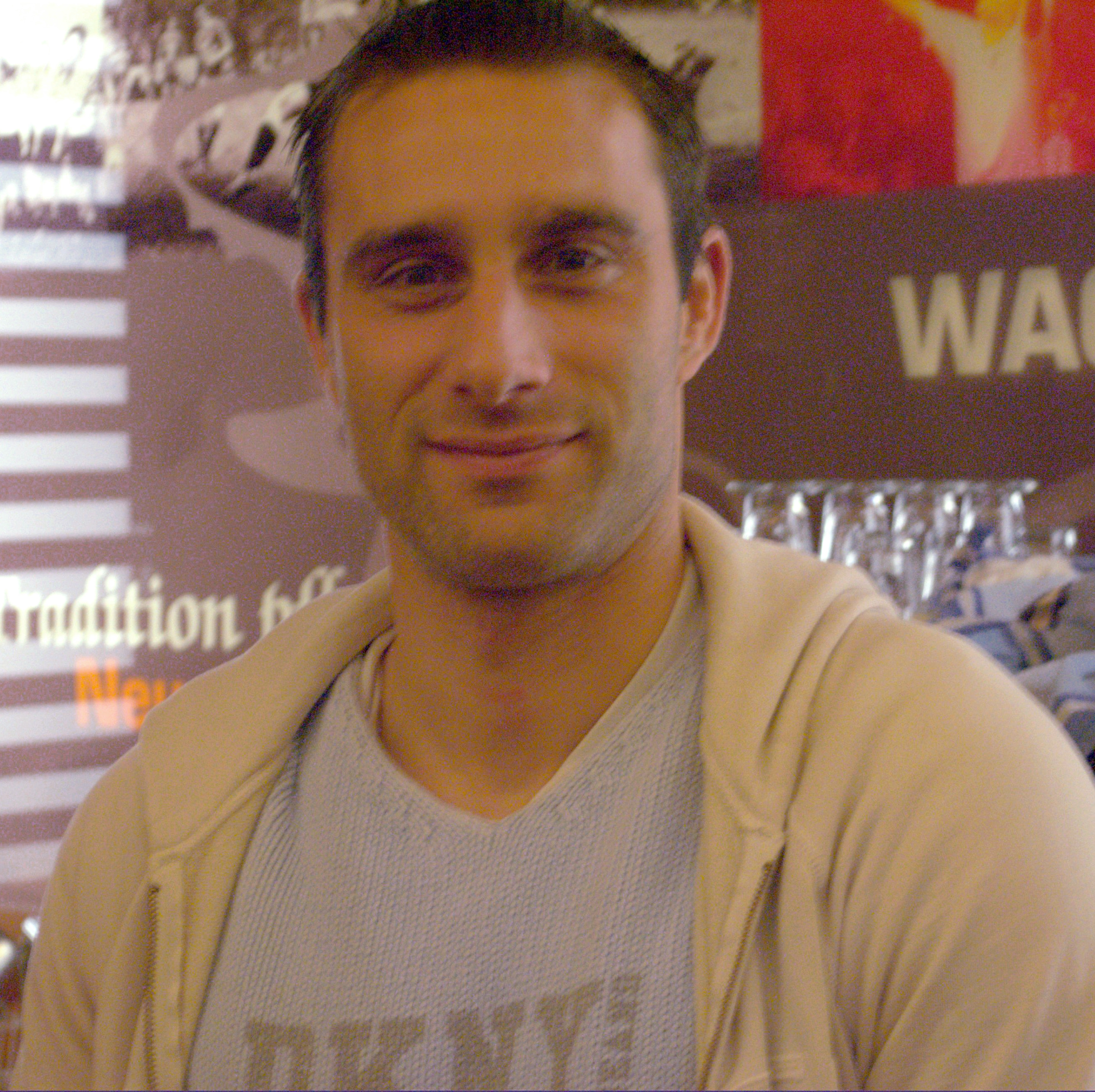 German football player Marco Reich in 2010